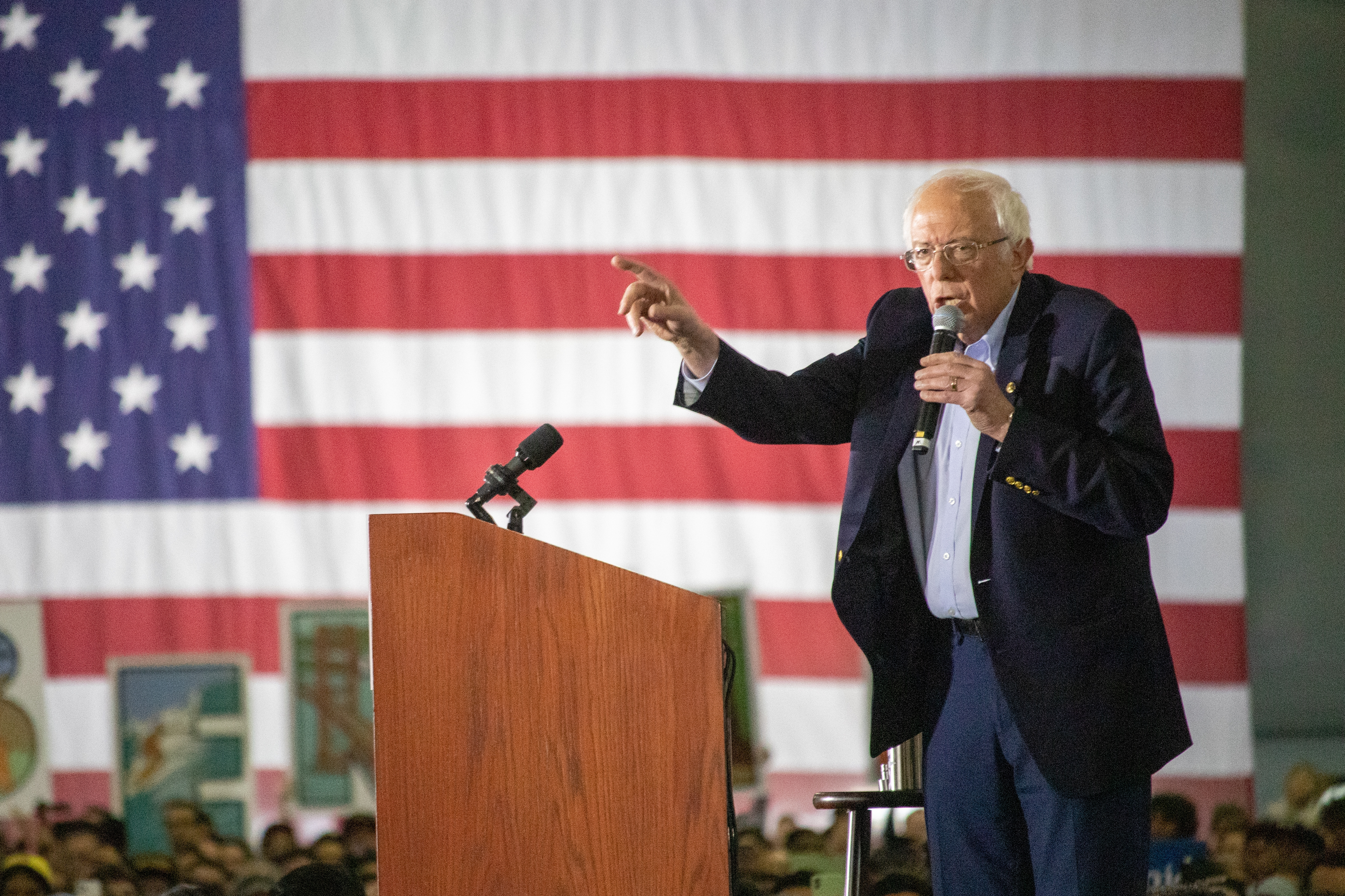 U.S. Senator Bernie Sanders speaking at a campaign rally on 1 March 2020.